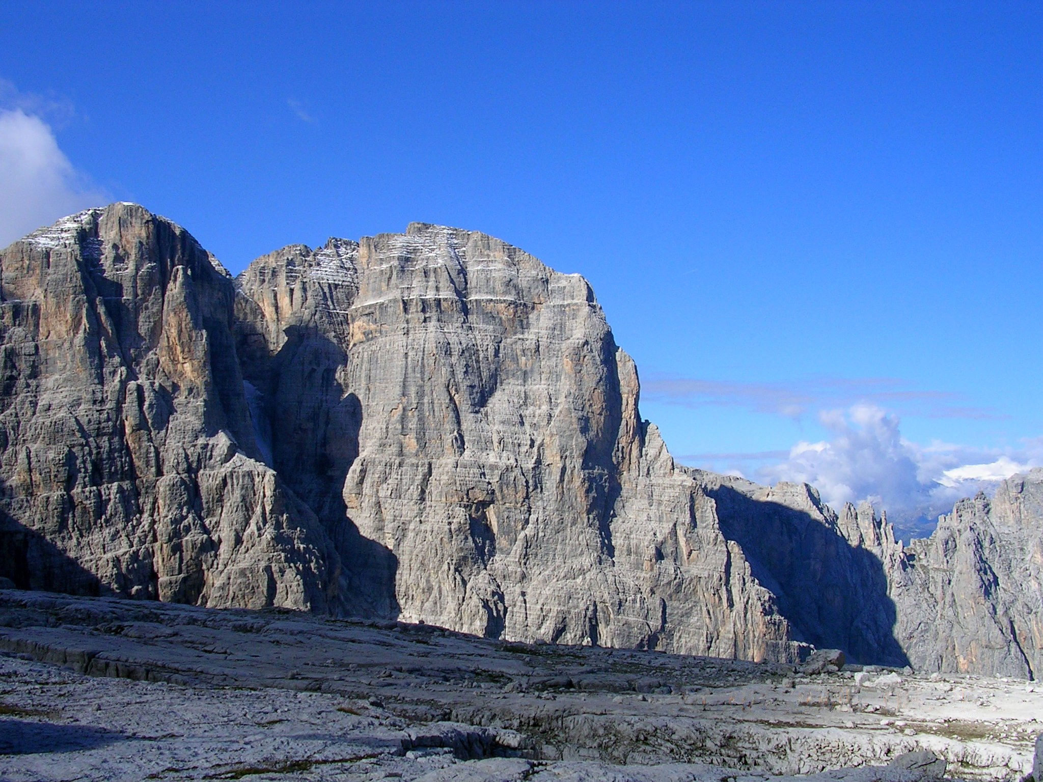 Crozzon di Brenta, parete nord-est, dal rifugio Alimonta